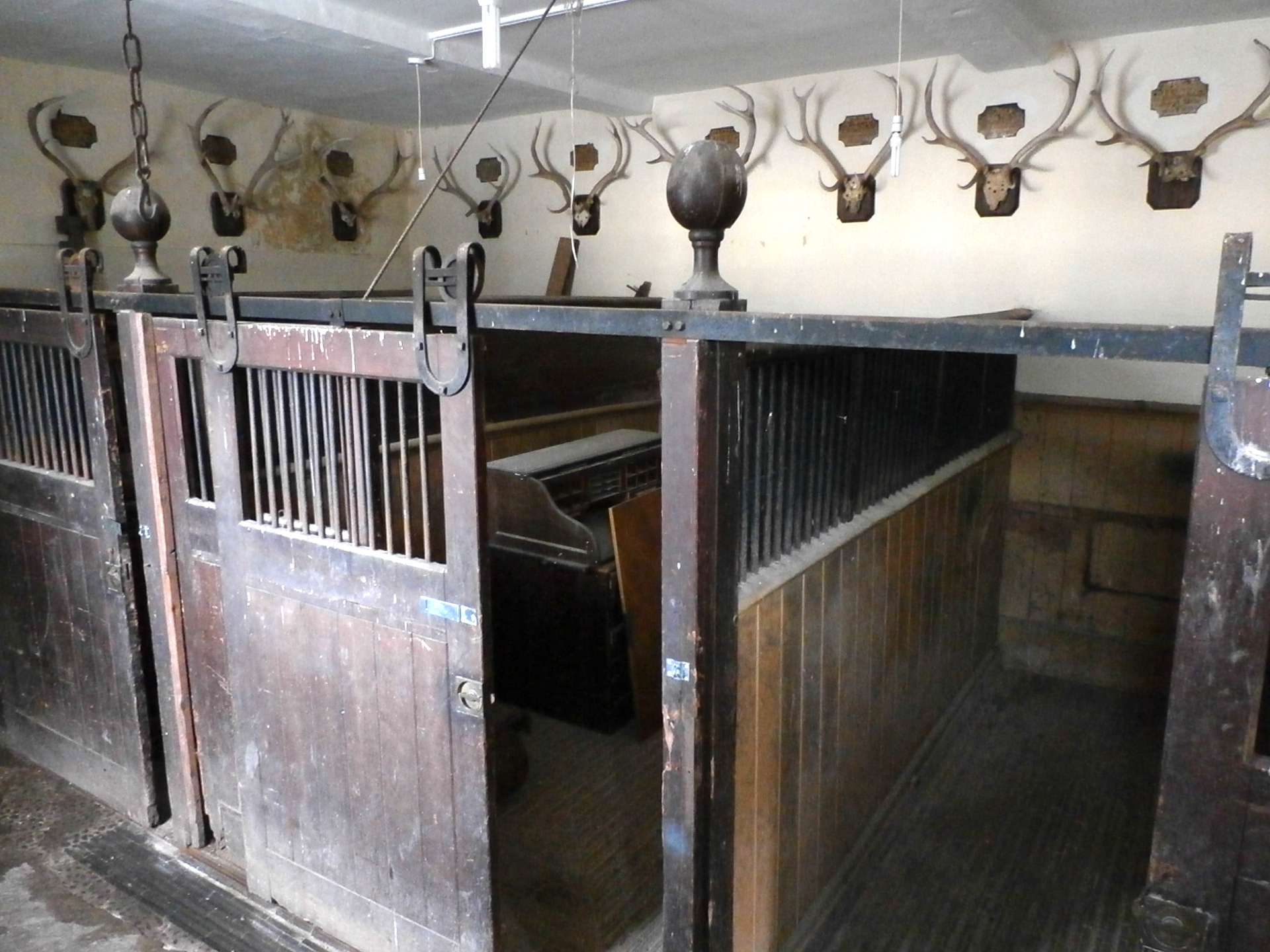 Loose boxes in stables built by Sir Thomas Dyke Acland, 9th Baronet (1752–1794) at Holnicote, Selworthy, Somerset. The thirty stag heads on the walls date from about 1787 to 1793 and were killed under his mastership of the Devon and Somerset Staghounds. A similar collection of stagheads amassed by his father the 7th Baronet, and much beloved by him, was destroyed during a fire at Holnicote in 1779. (Acland, Anne. A Devon Family: The Story of the Aclands. London and Chichester: Phillimore, 1981, pp.25, 27) Now property of the National Trust